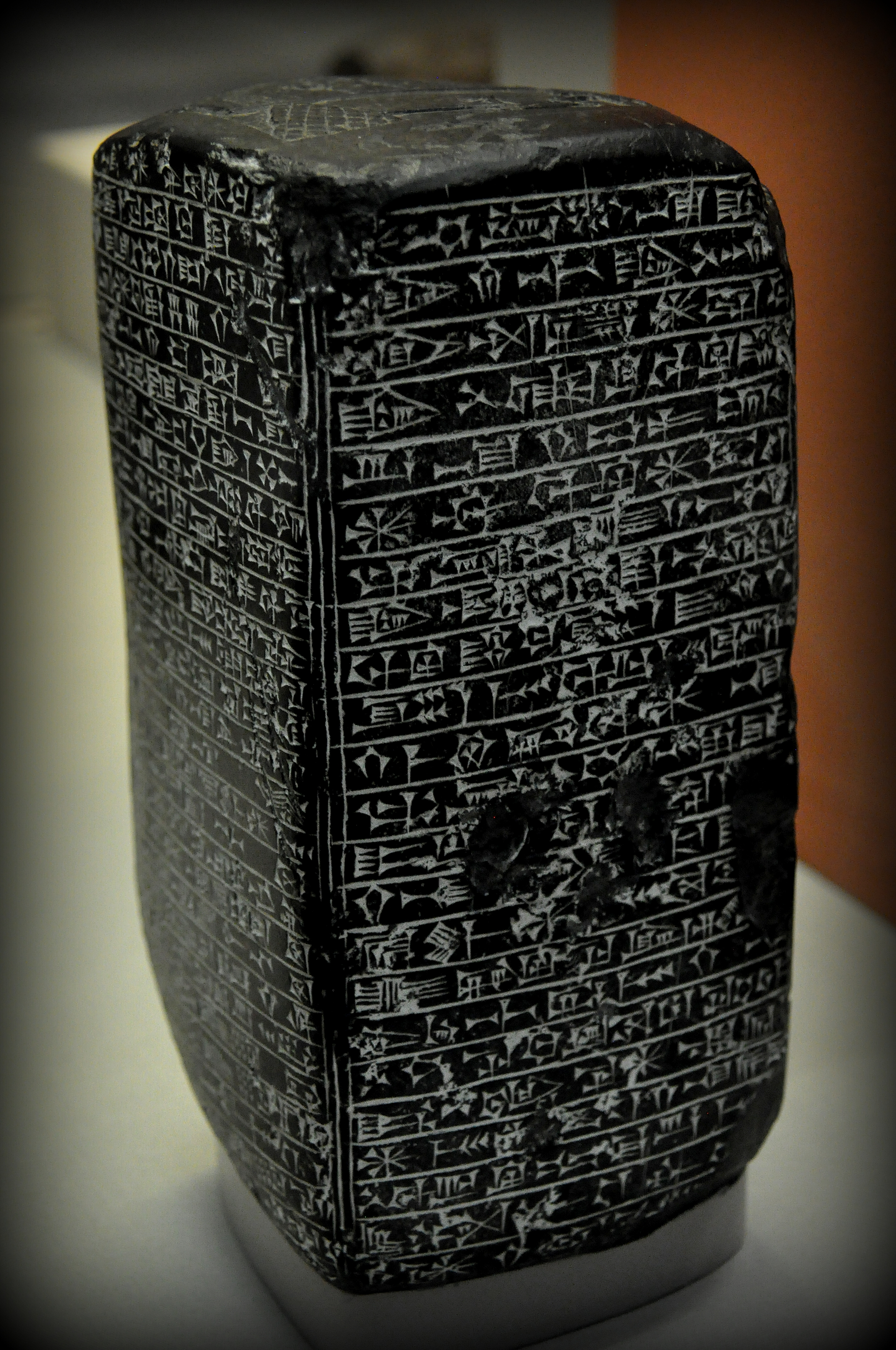 Black basalt monument of king Esarhaddon. It narrates Esarhaddon's restoration of Babylon. Circa 670 BCE. From Babylon, Mesopotamia, Iraq. The British Museum, London.